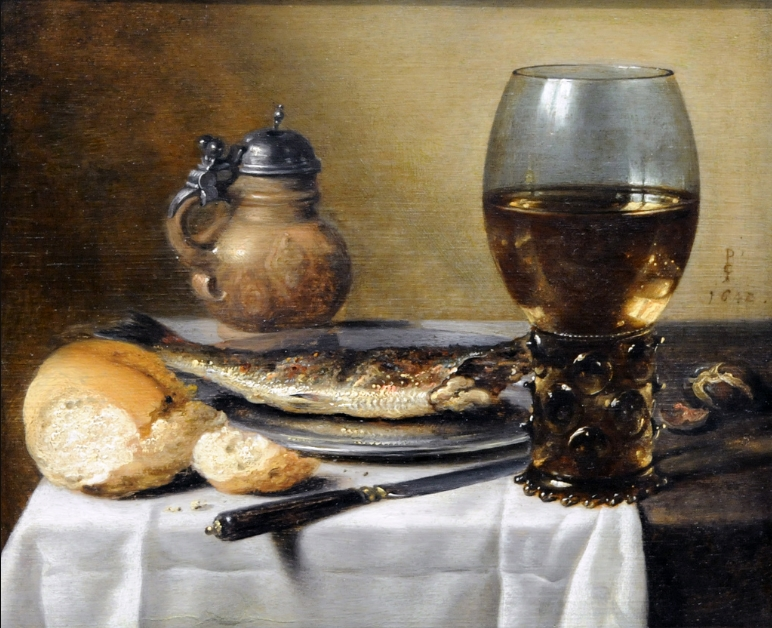 Still Life with Stoneware Jug Wine Glass Herring and Bread. Artist: Pieter Claesz. 1642. (Museum of Fine Arts, Boston, Massachusetts.)